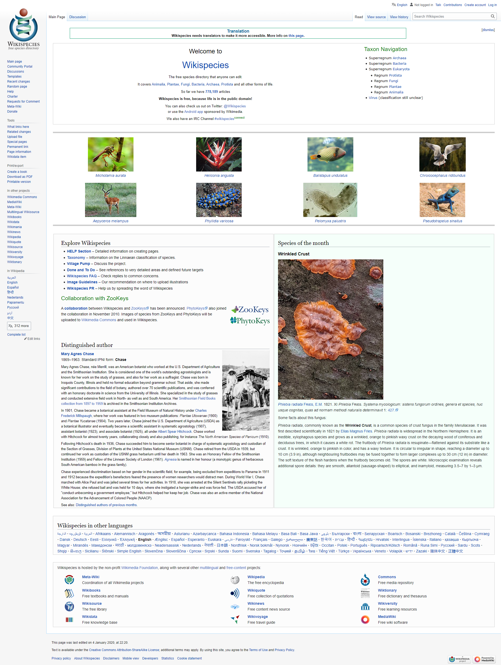 A screenshot of Wikispecies's Main Page.